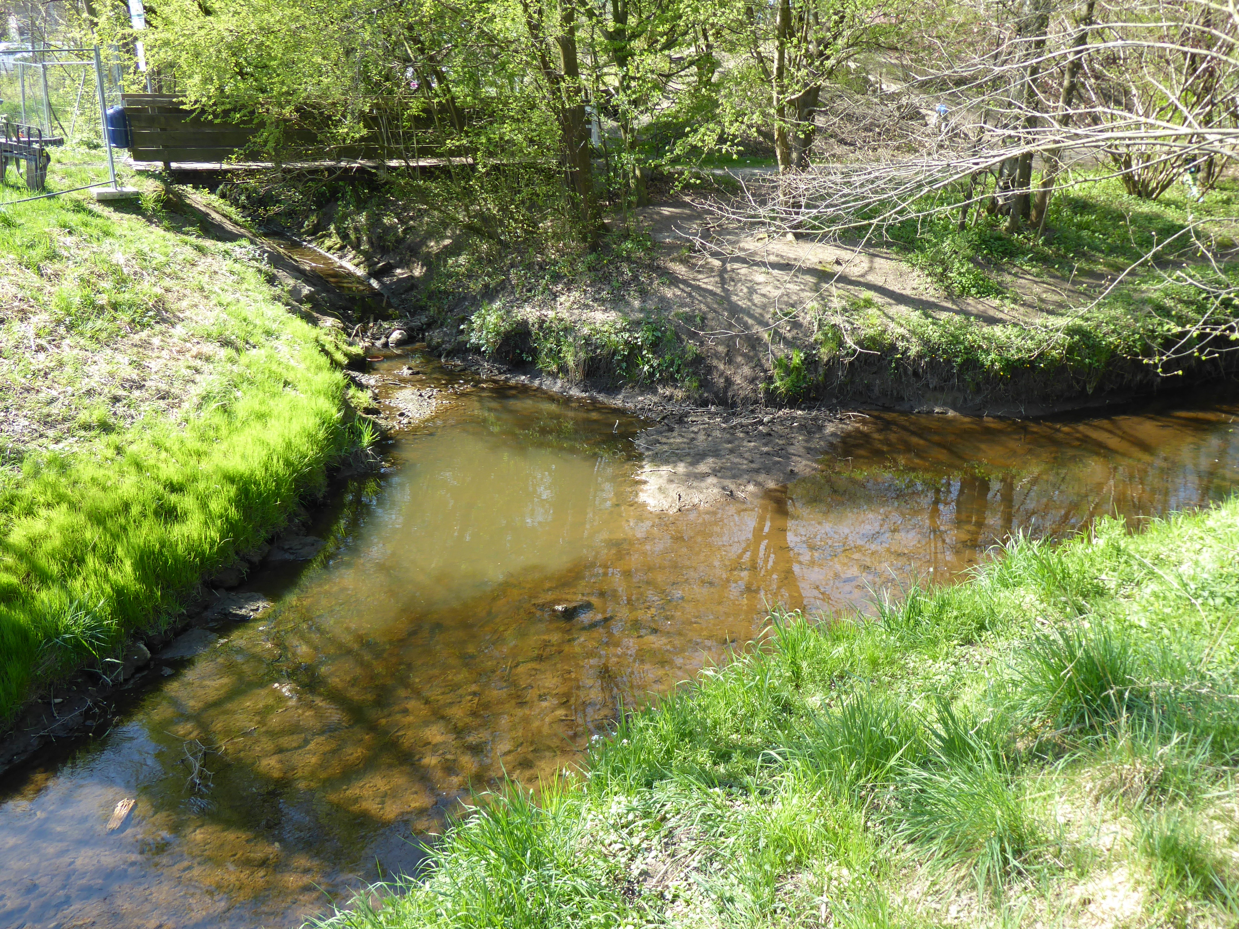 River Erlbach (from the background) flowing into the Rott (coming from the right), in the municipality Großkarolinenfeld in Bavaria, Germany